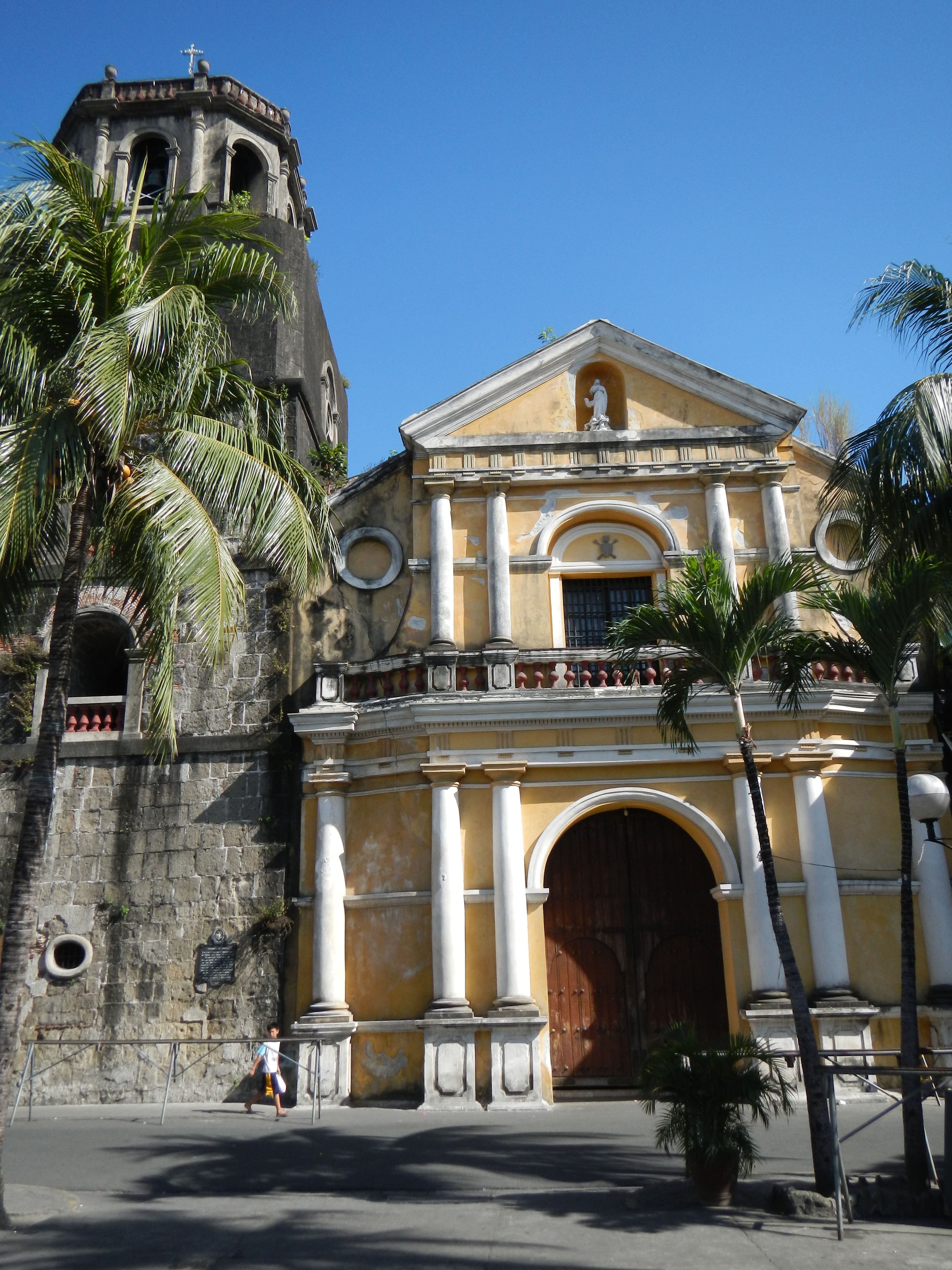 Upload Wizard photos of the -- (general description of landmarks, town, church) - National Cultural Treasure and Heritage, the ancient - Pasig Cathedral[1] : I desire to again photograph this as New Version, since before it was dark foggy smoggy and bad light, now it is full sun and glorious.[2] Founded July 2, 1573 Dedication Our Lady of the Immaculate Conception of Pasig Diocese of Pasig Metropolitan Archdiocese of Manila Most Rev. Mylo Hubert C. Vergara, DD Very Rev. Fr. Orlando B. Cantillon. VG.